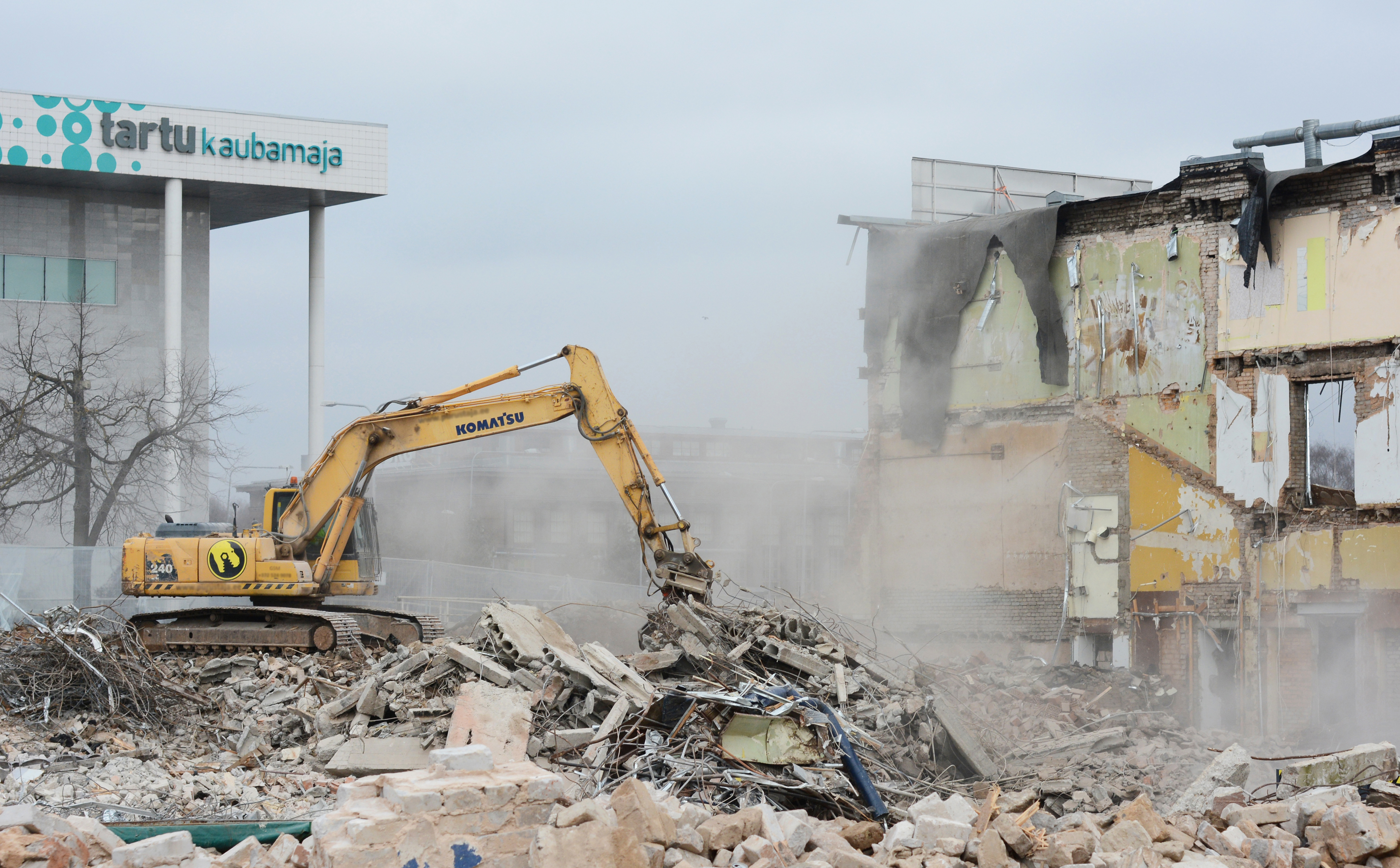 Demolition of Tartu old mall (built in 1966).